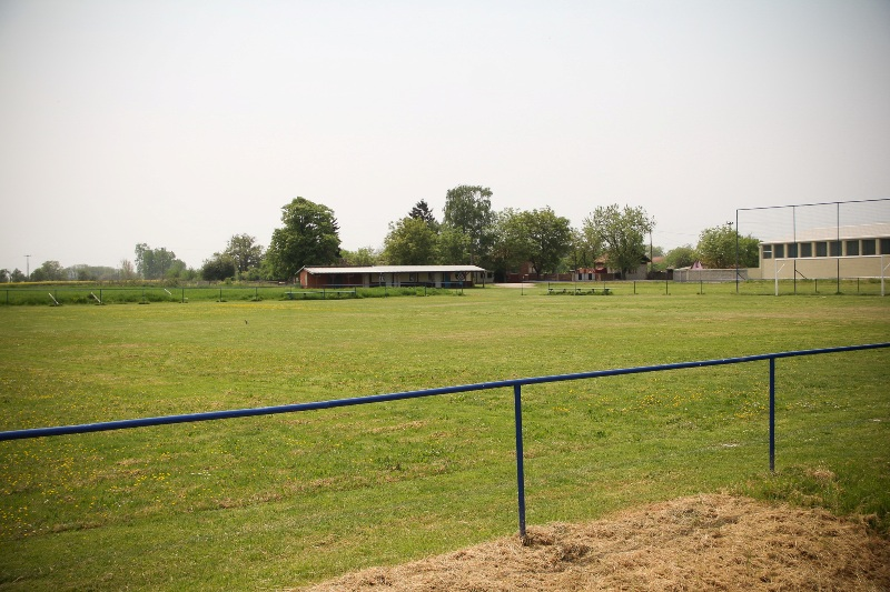 Nogometno igralište